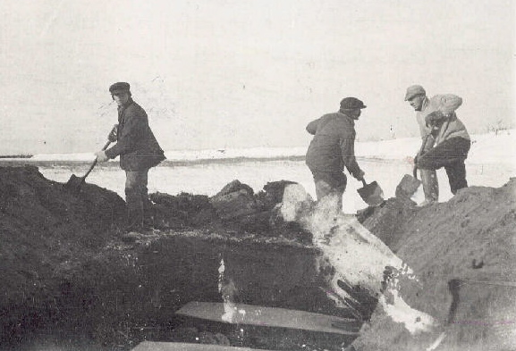 Spanish flu victims being buried. North River, Labrador, Canada, 1918